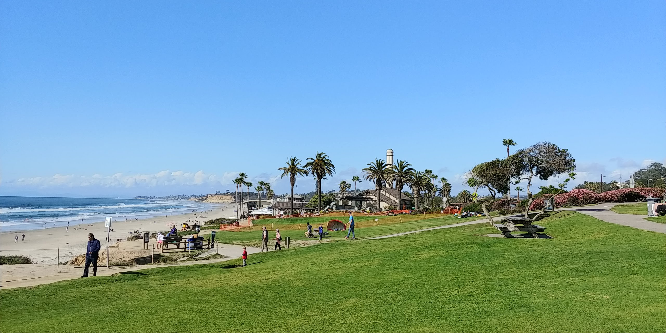 Powershouse Park, Del Mar, California, US.